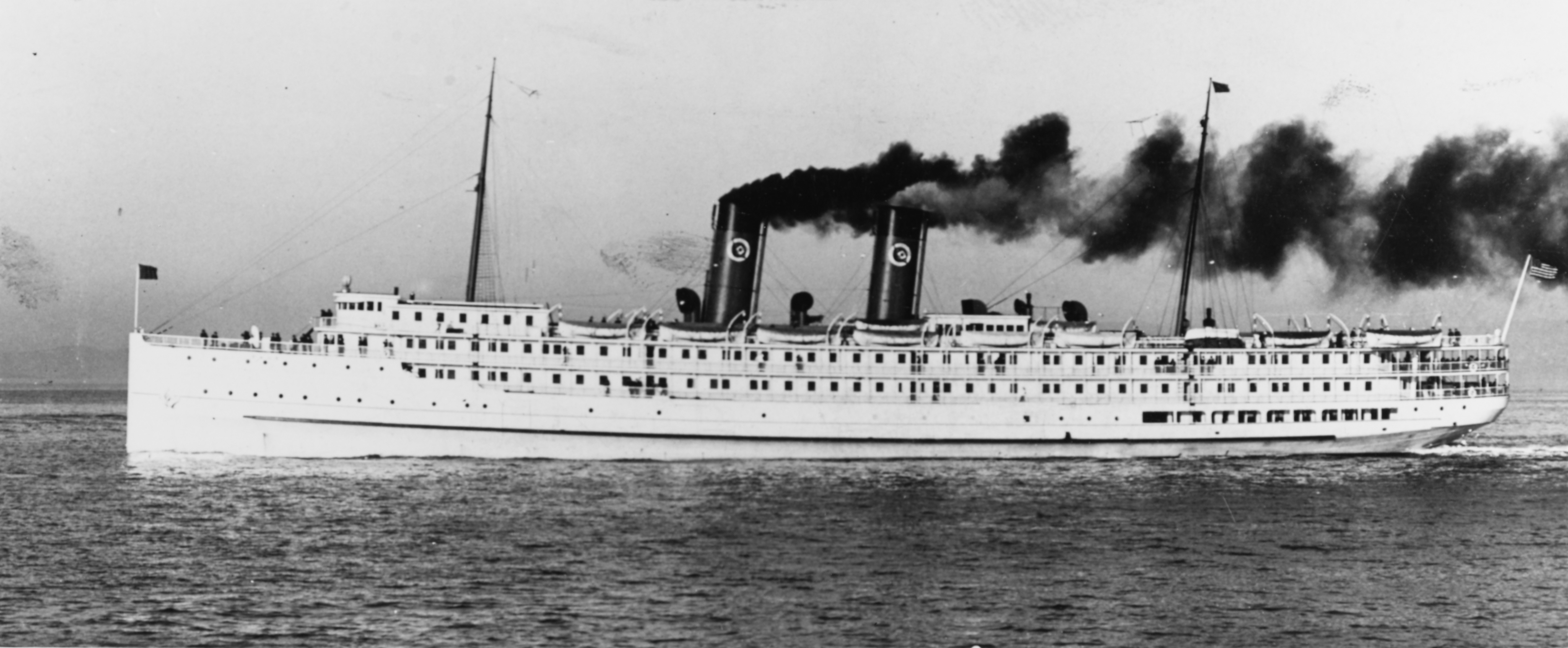 SS Yale underway, date unknown.